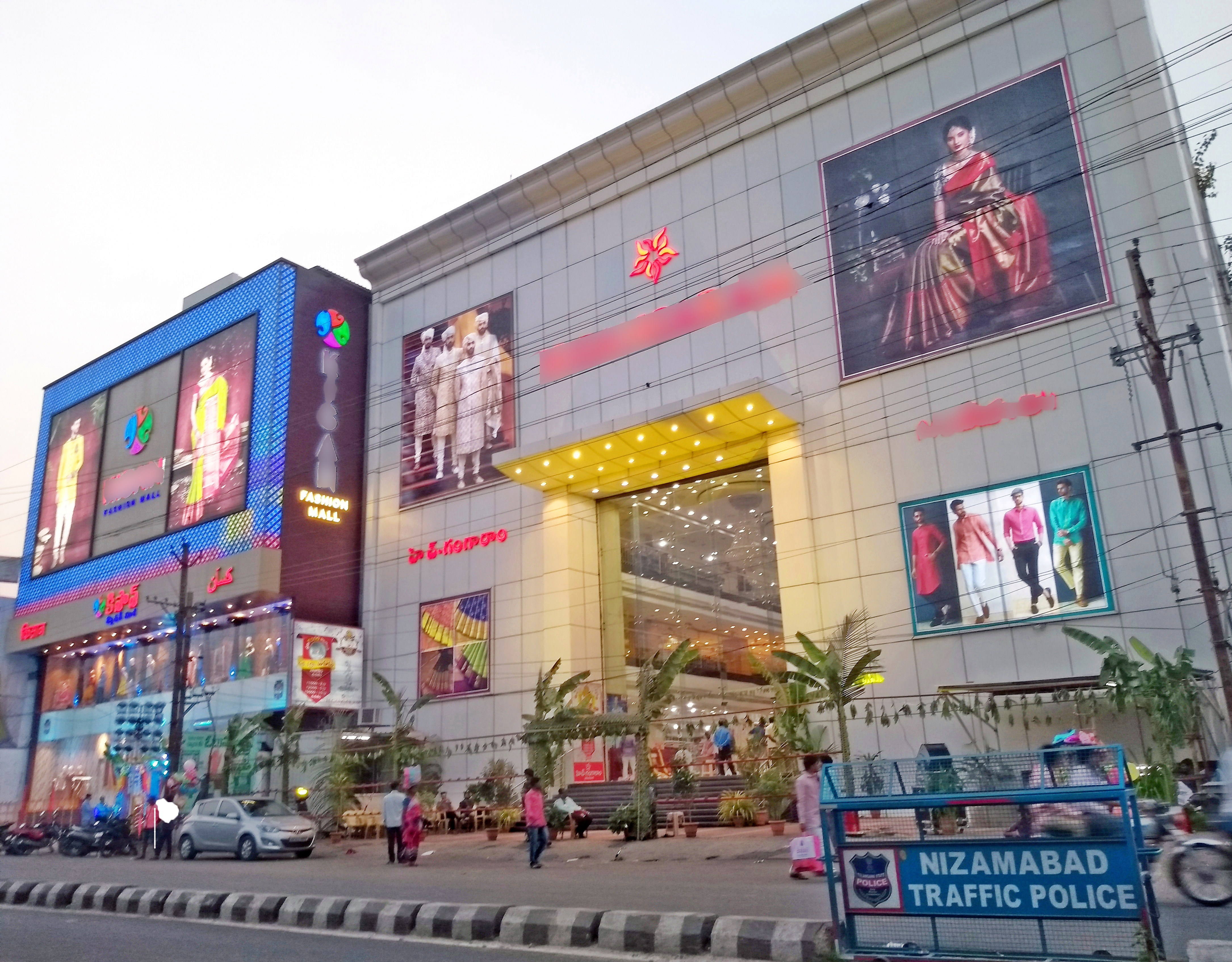 Major Commercial Complexes on Rashtrapati Road in Nizamabad.